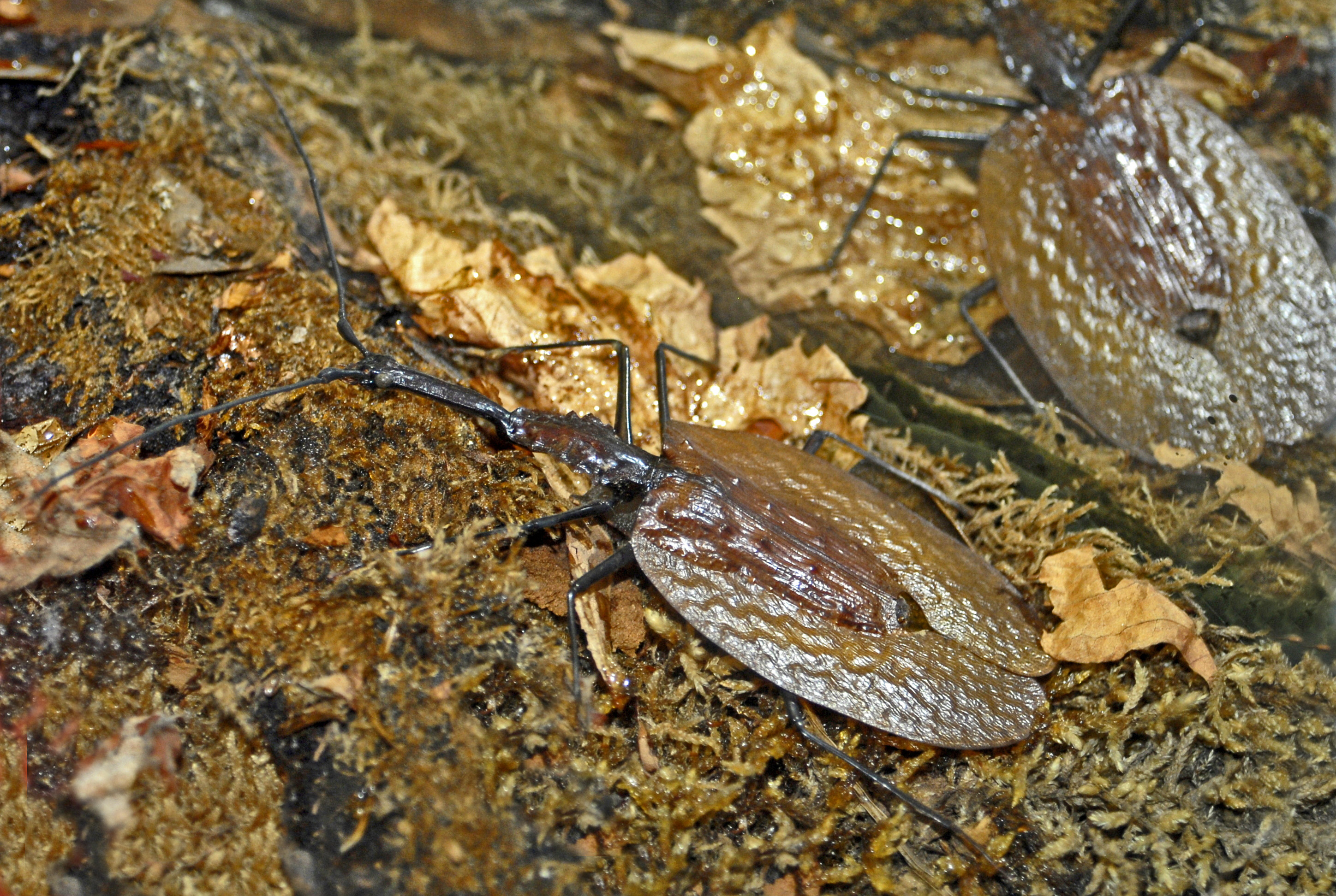 Mormolyce phyllodes on display at the Museo Civico di Storia Naturale di Milano